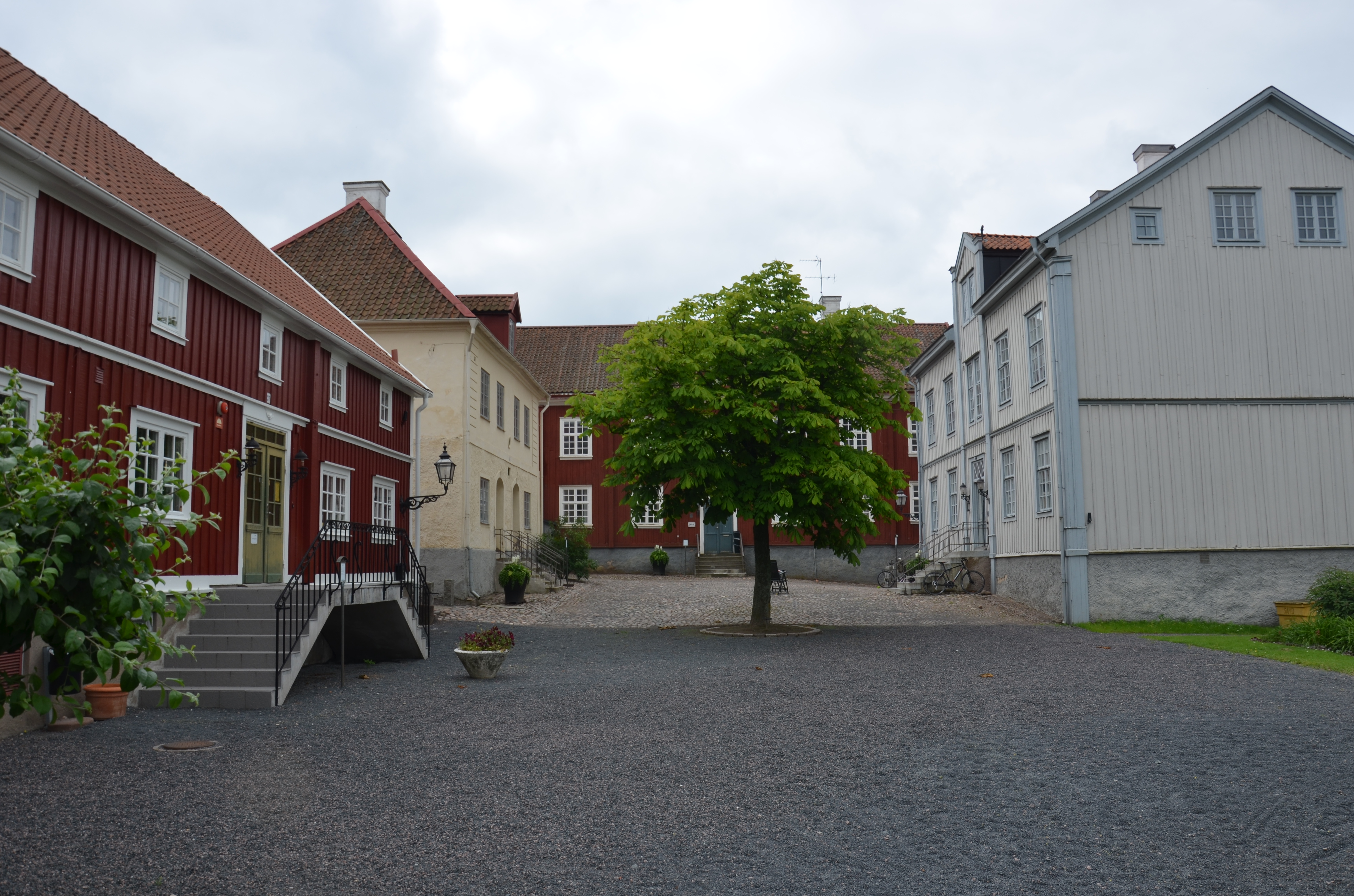 Gamla lasarettsområdet i Jönköping